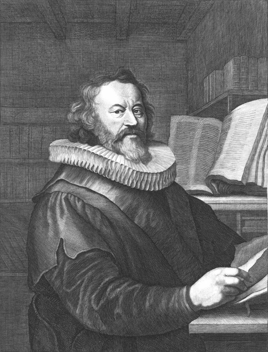 Vossius, Gerardus Joannes (1577 - 1649), Discipline: Physics, Original Dimensions: Graphic: 23.6 x 18 cm / Sheet: 32.7 x 22 cm, original subtitle transcription following (or see older file versions below in history)